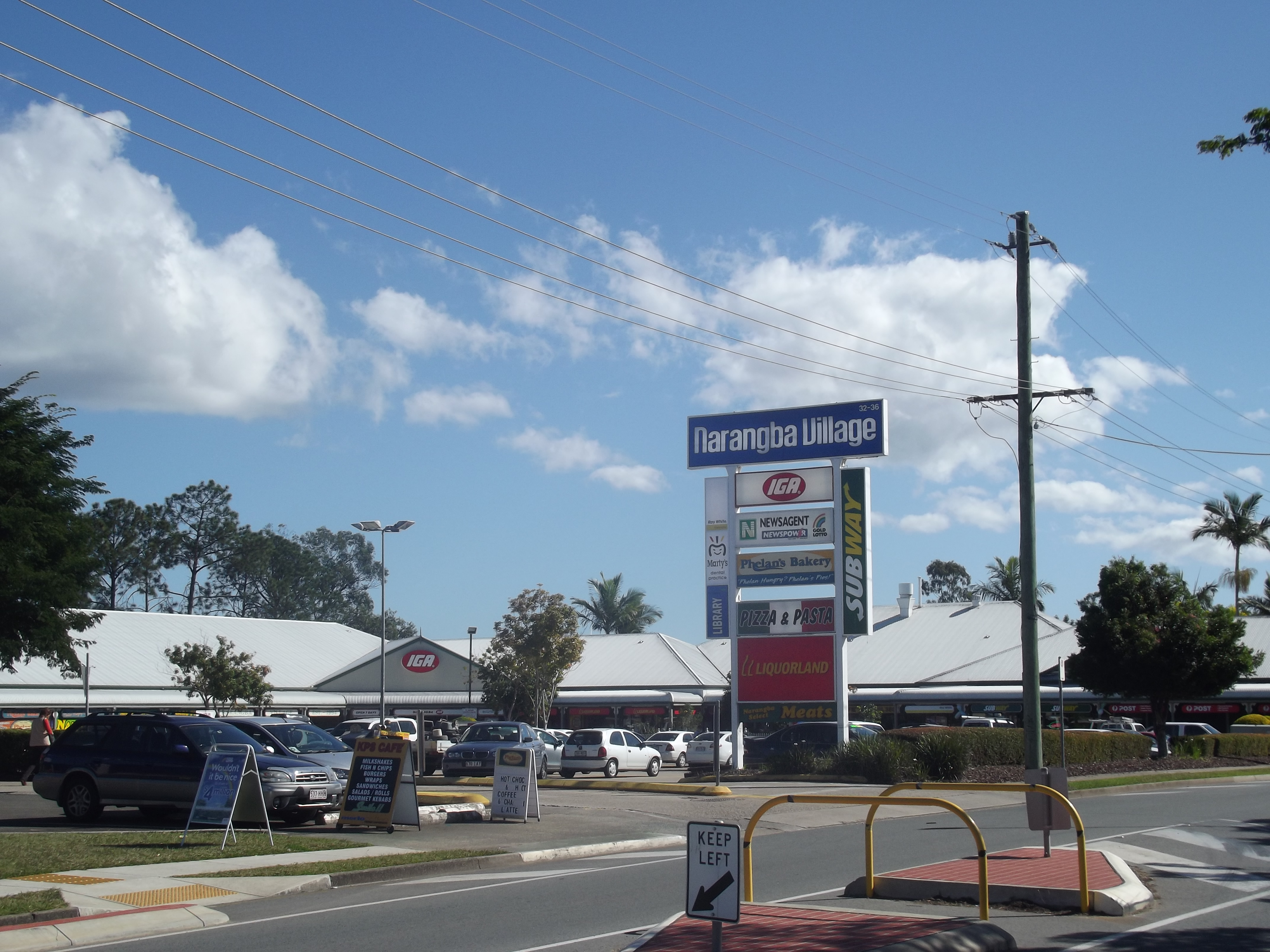 A photo of the suburb of Narangba showing the Narangba Village Shopping Centre on the south side of the town.